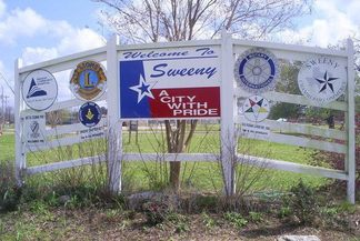 Sweeny Welcome Sign